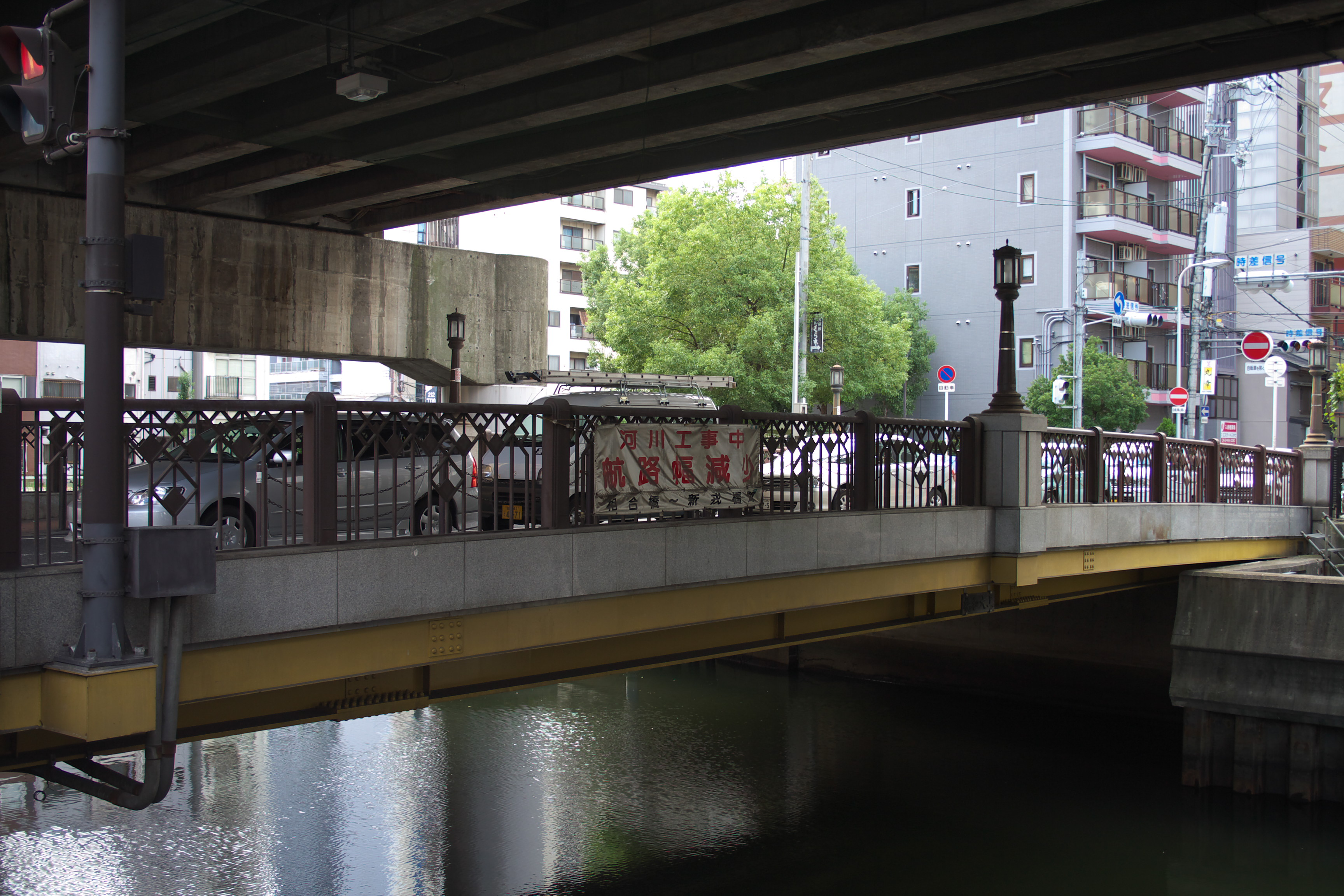 Kamiyamatobashi Bridge (Osaka City, JAPAN)